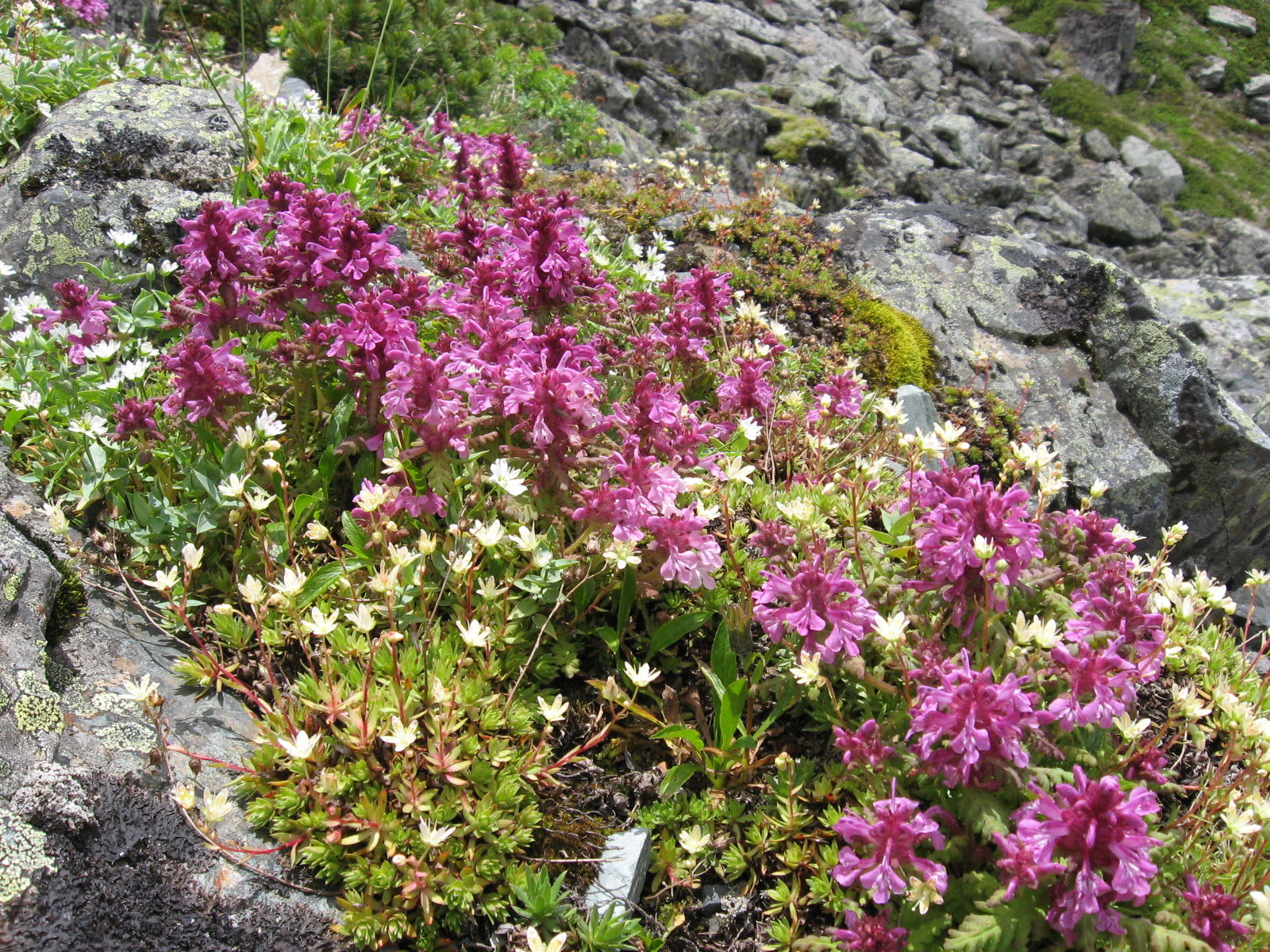 Pedicularis verticillata Hornjoserbsce: Mutličkata wšowica